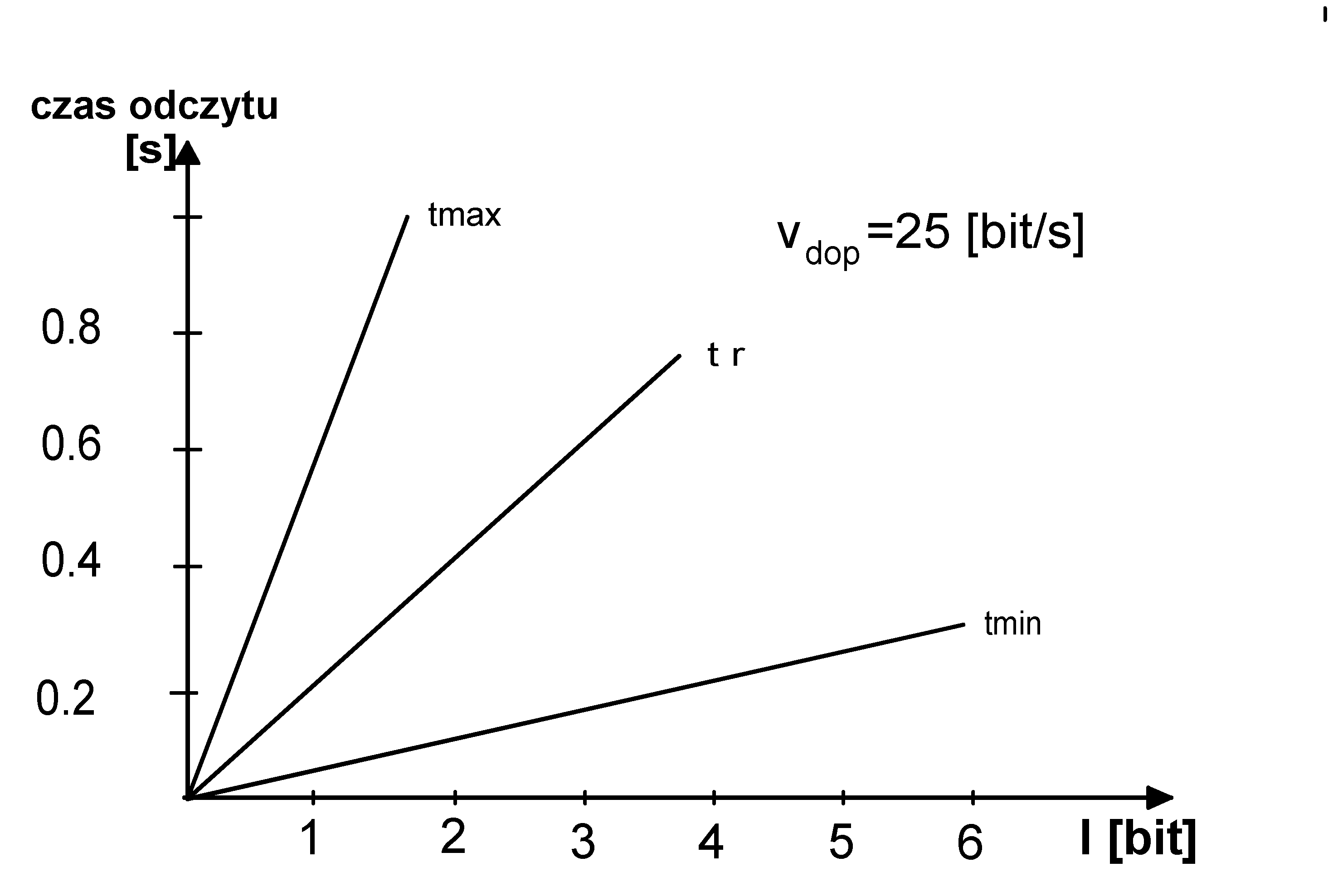 Time of reading by human being versus intensity information